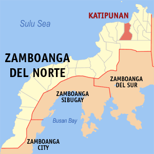 Map of the Zamboanga del Norte showing the location of Katipunan